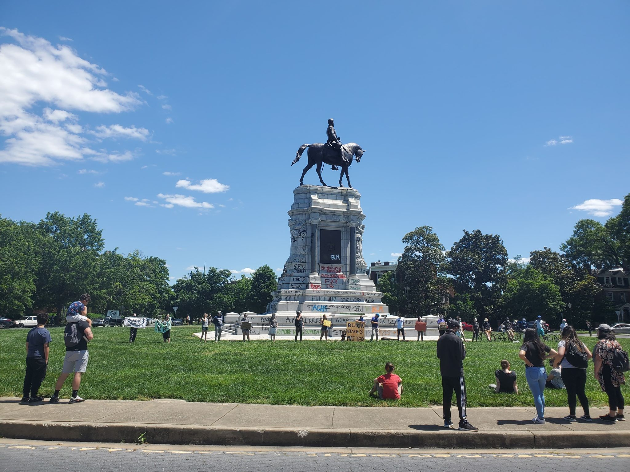 Photo I took of protests in Richmond, Virginia in relation to the George Floyd protests. Photo by Tyler Walter.